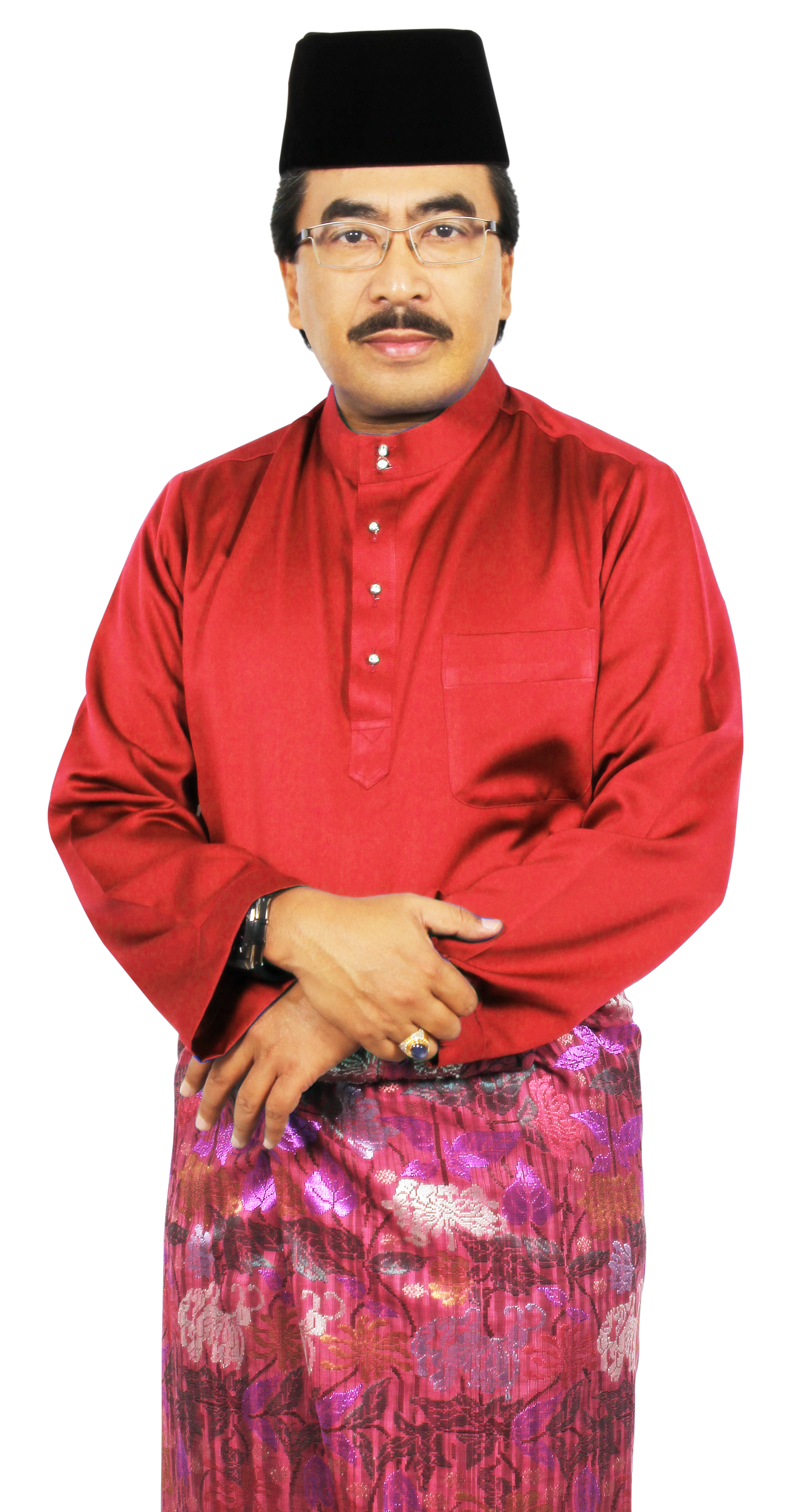 Datuk Seri Johari Bin Abdul Ghani High Resolution Picture